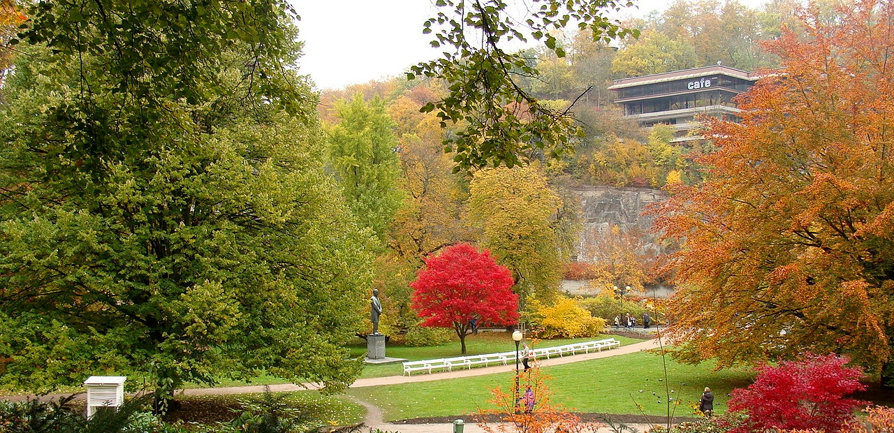 City of Karlovy Vary in Autumn period 2011